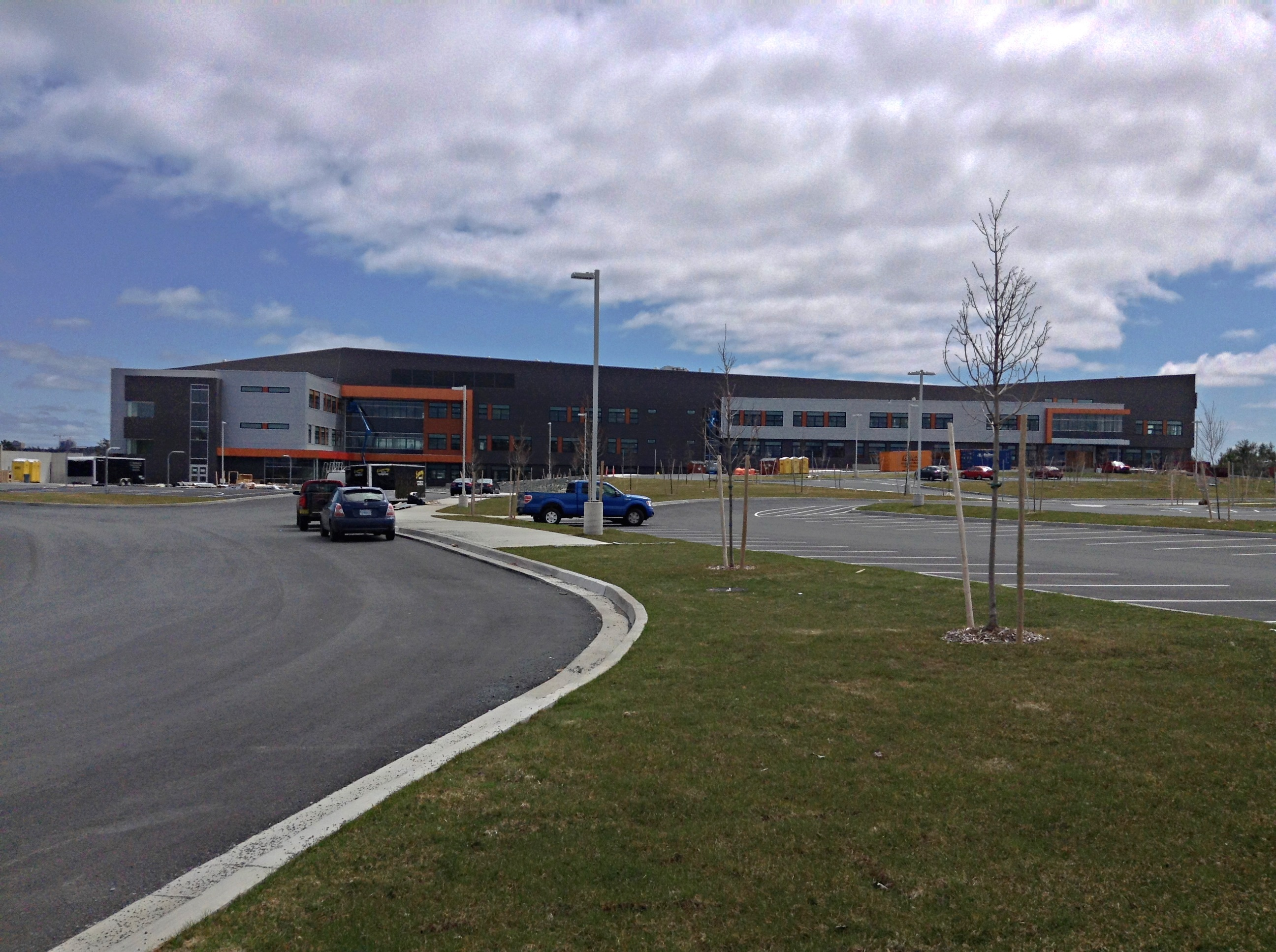 Photo of new CP Allen High under construction in Bedford, Nova Scotia